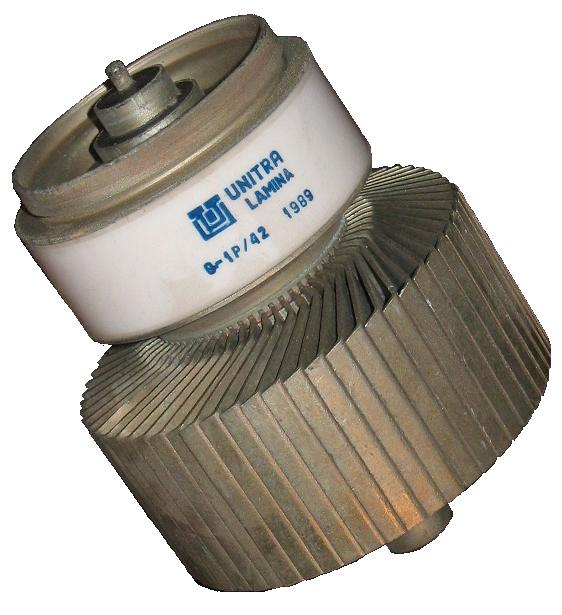 Transmission-tetrode Q-1P (medium power) to mobile military radio stations R-137 und R-140 with parameters as follows: anode voltage to 3.3 kV gate voltage = 2 to 500V heating voltage = 12.6 V anode power = 1 kW maximum tuning frequency = 100 MHz maximum temperature = 150 °C